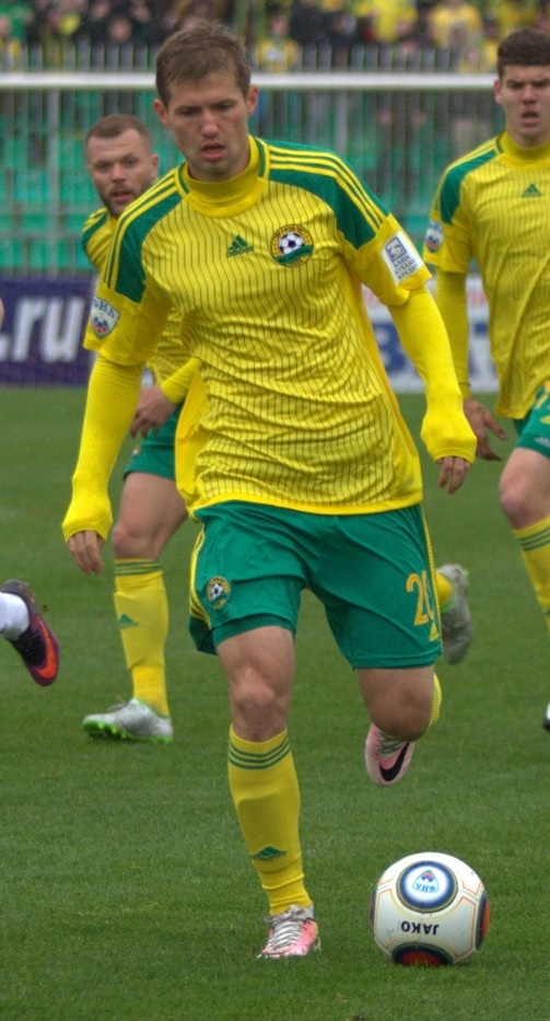 Vladimir Obukhov playing for FC Kuban Krasnodar in a game against FC Neftekhimik Nizhnekamsk.